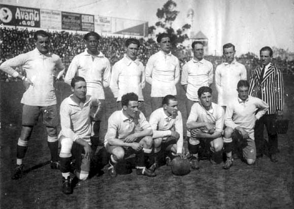 The Uruguayan national football team